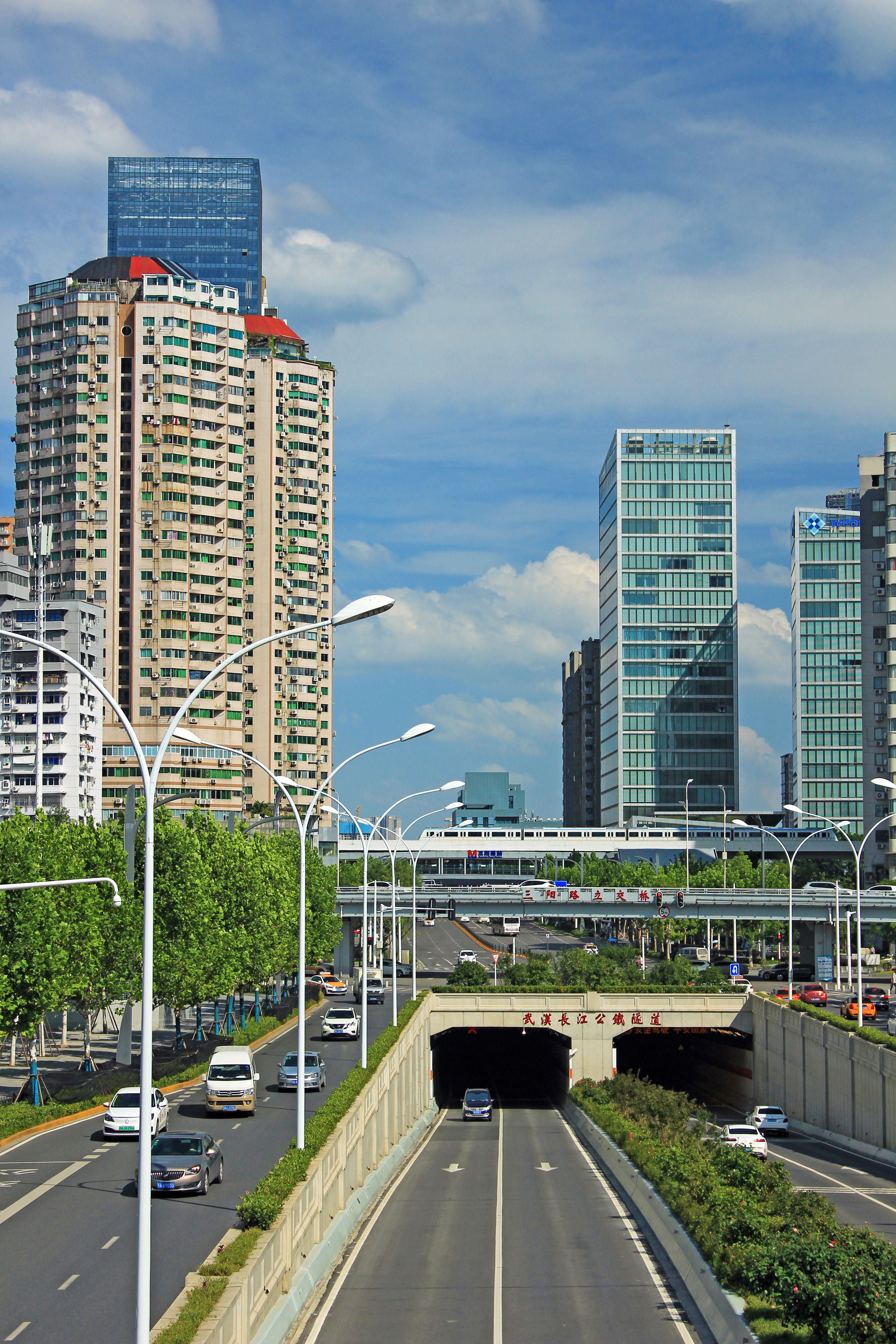 Wuhan Yangtze Tunnel River of Raod and Rail, Sanyang Road Overpass, and Wuhan Metro Line 1